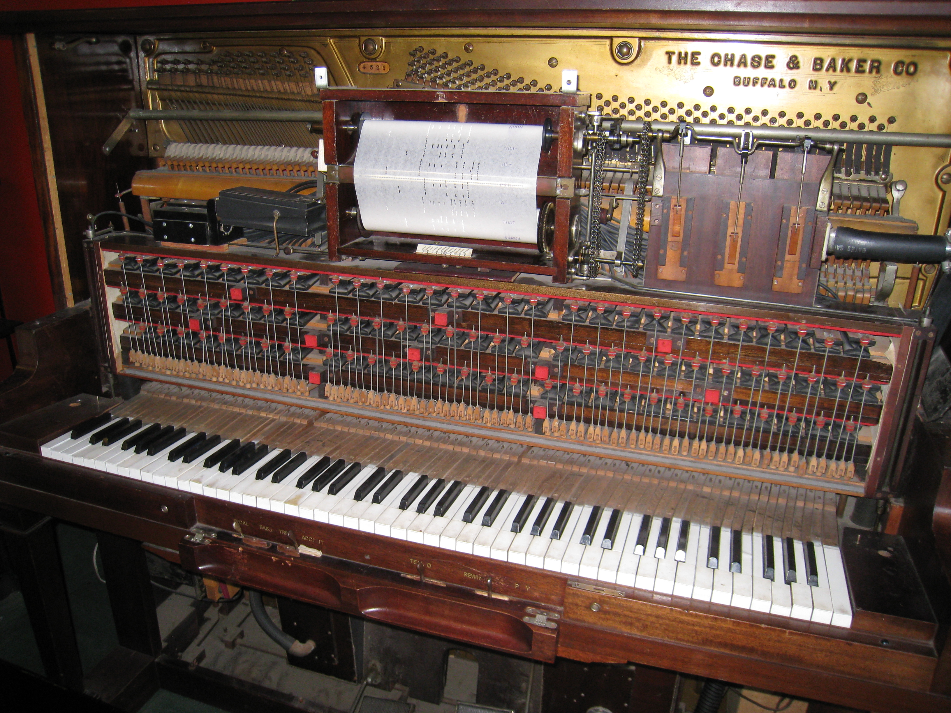 Chase & Baker player piano, Buffalo, NY, USA, circa 1885.